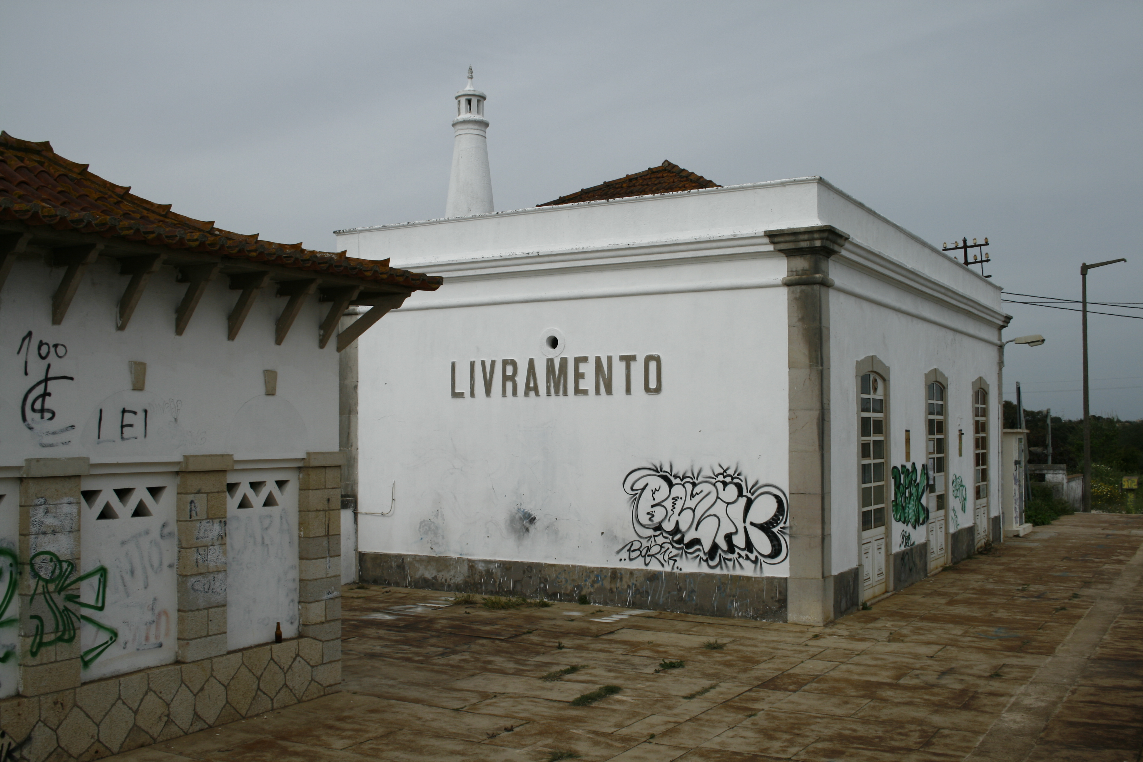 Livramento Halt, in the Algarve Line, in southern Portugal.